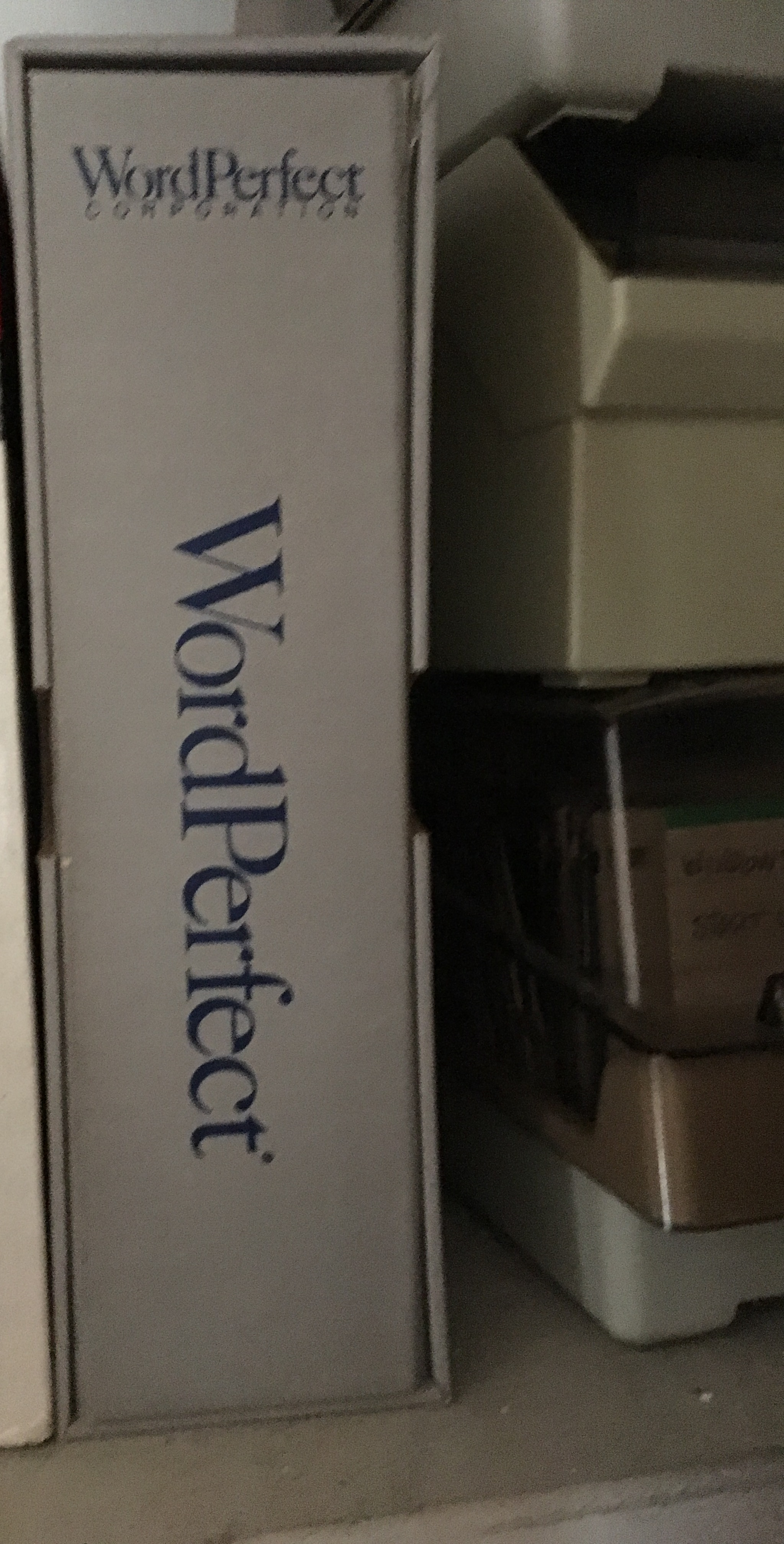 A product box containing WordPerfect for DOS, circa release 5.0, alongside pair of 3½-inch diskette holders.